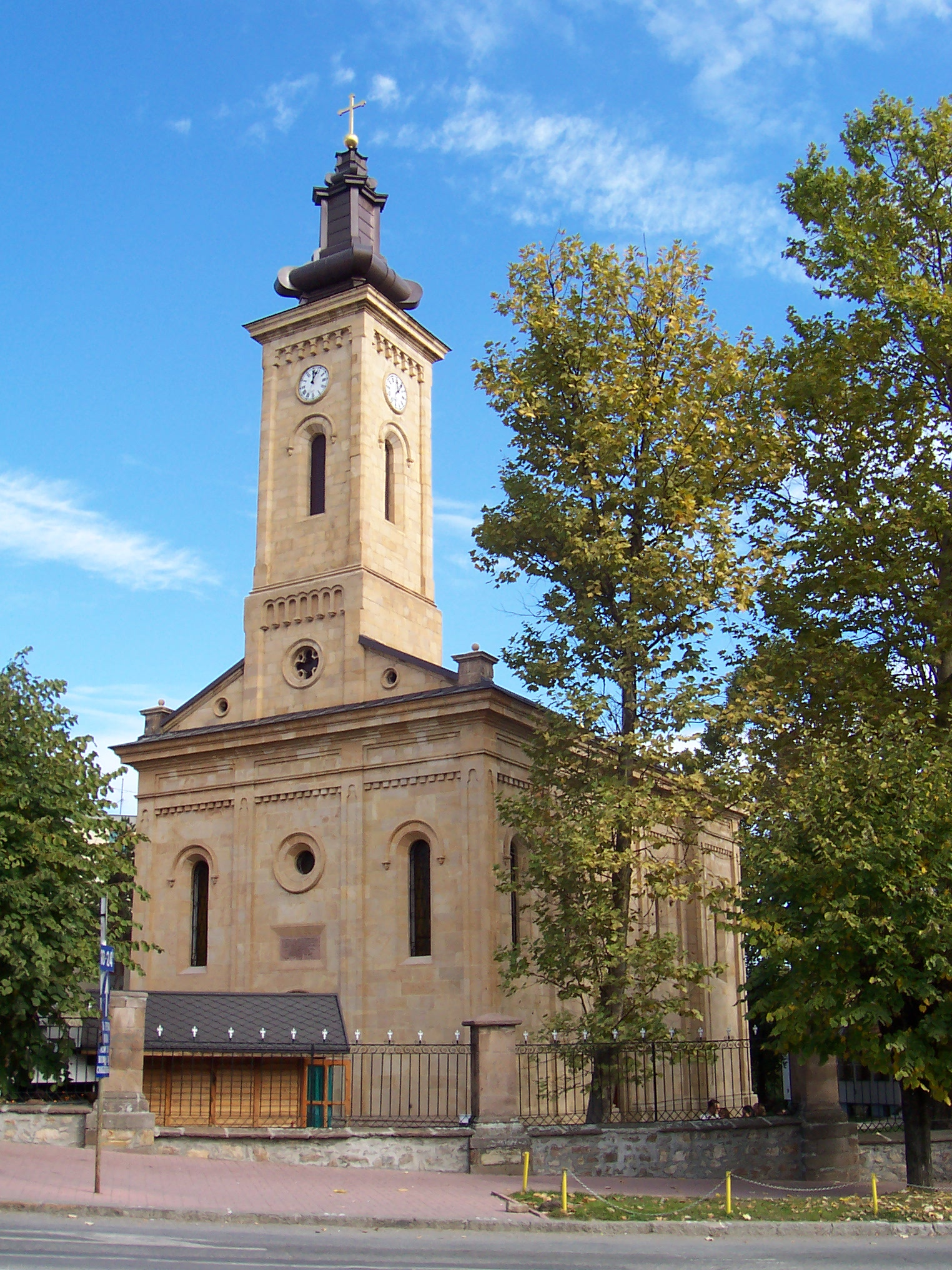 Church of Holy Trinity in Gornji Milanovac. Copyright 2006 by Nikola Smolenski.